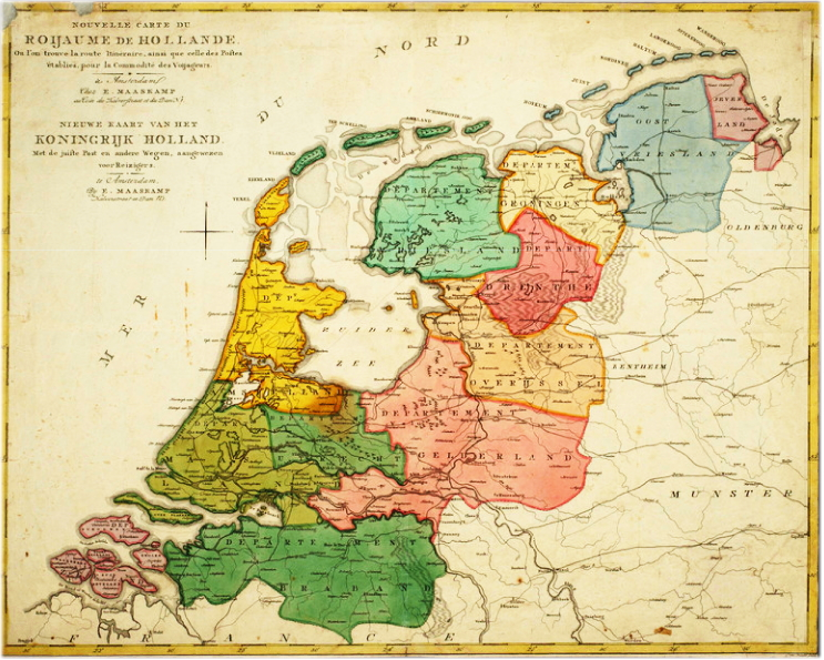 New Map of the Kingdom Holland